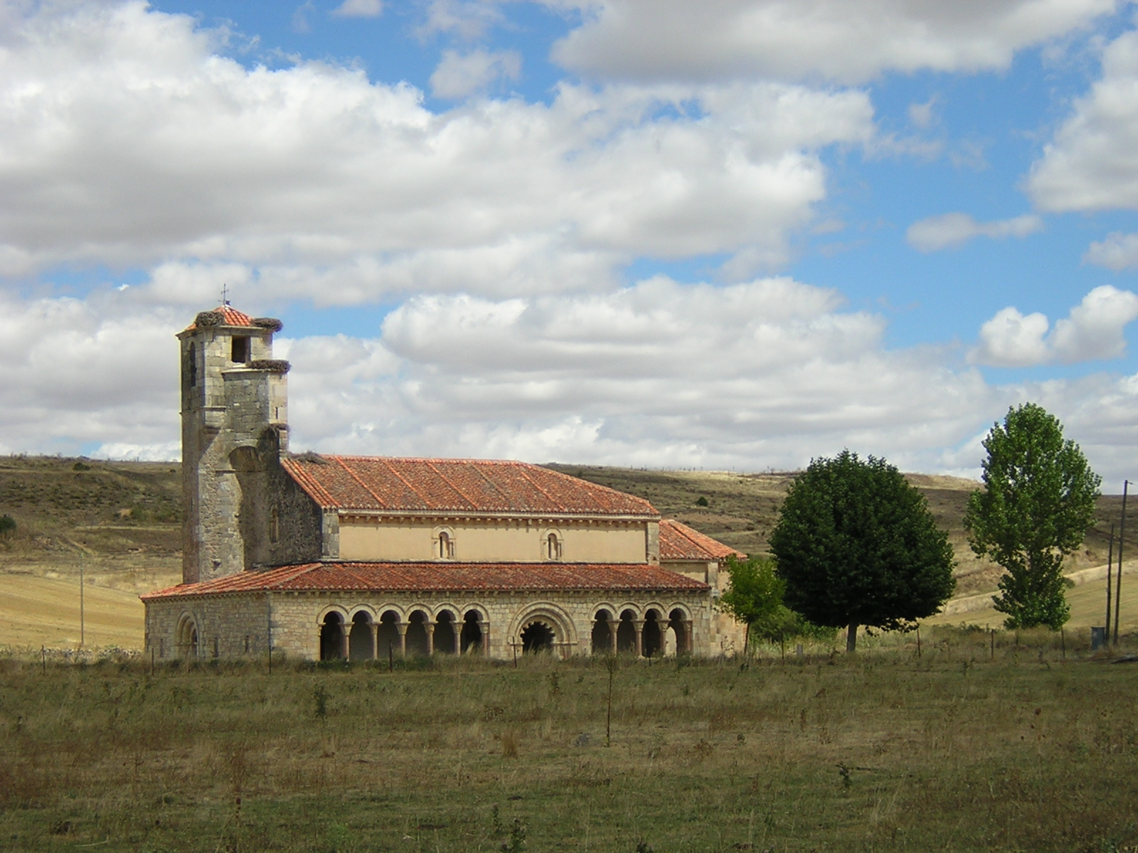 Duratón romanesque church